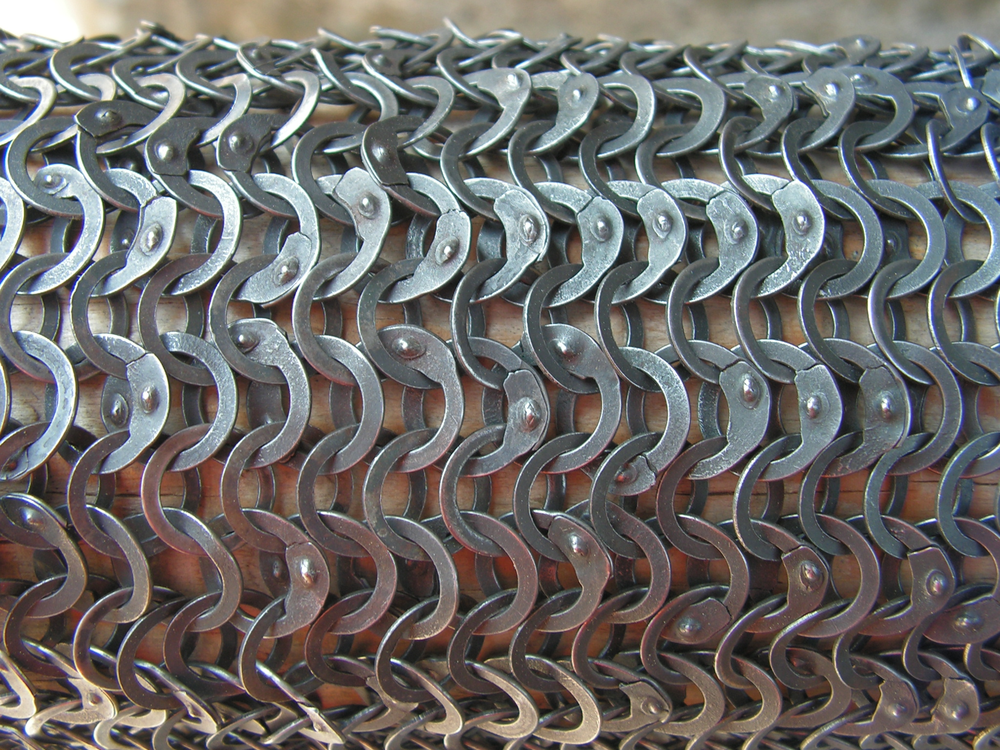 detail of a chainmail